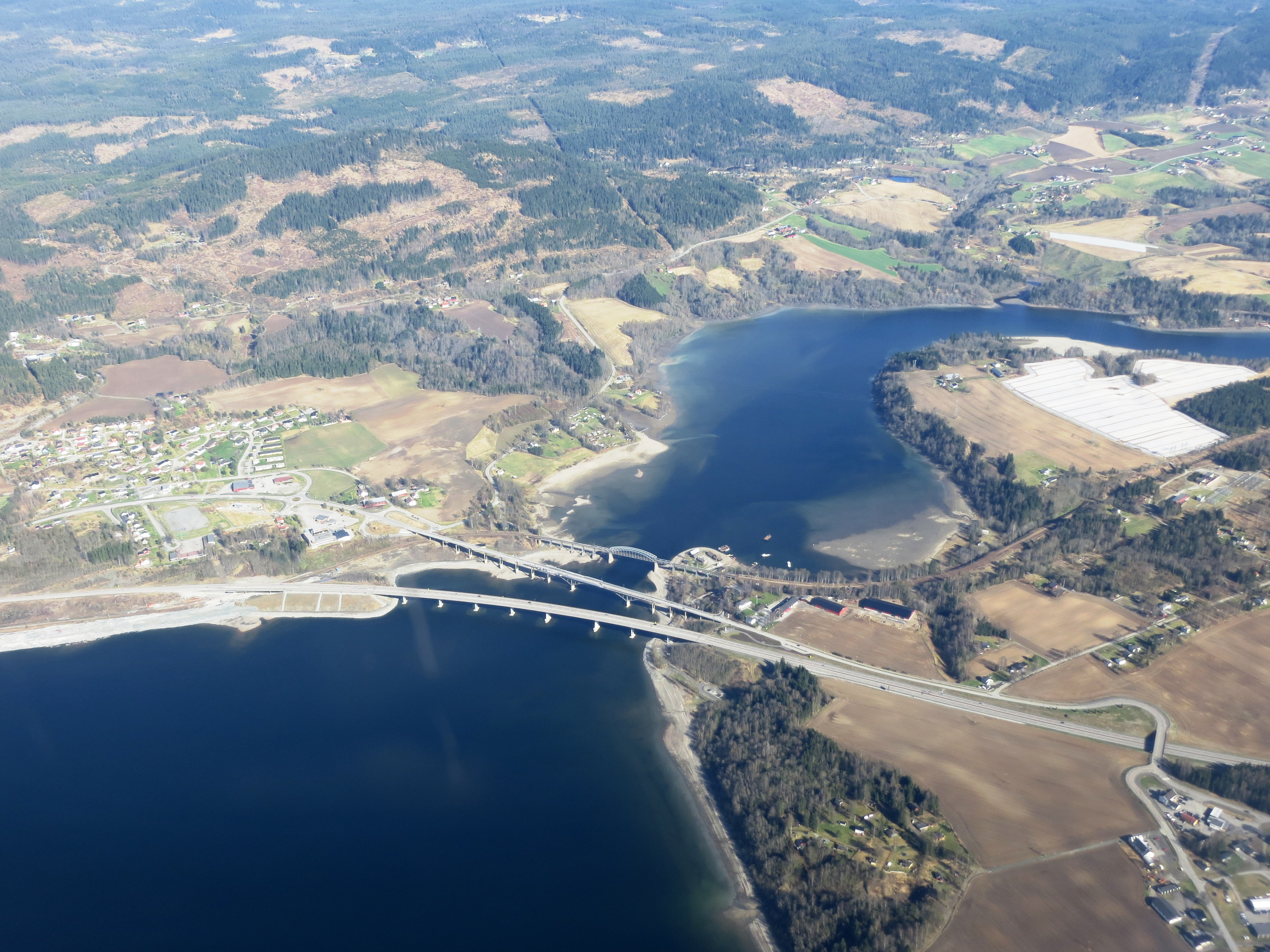 Minnesund on the confluence of Mjøsa lake into Vorma River - Eidsvoll municipality, Norway